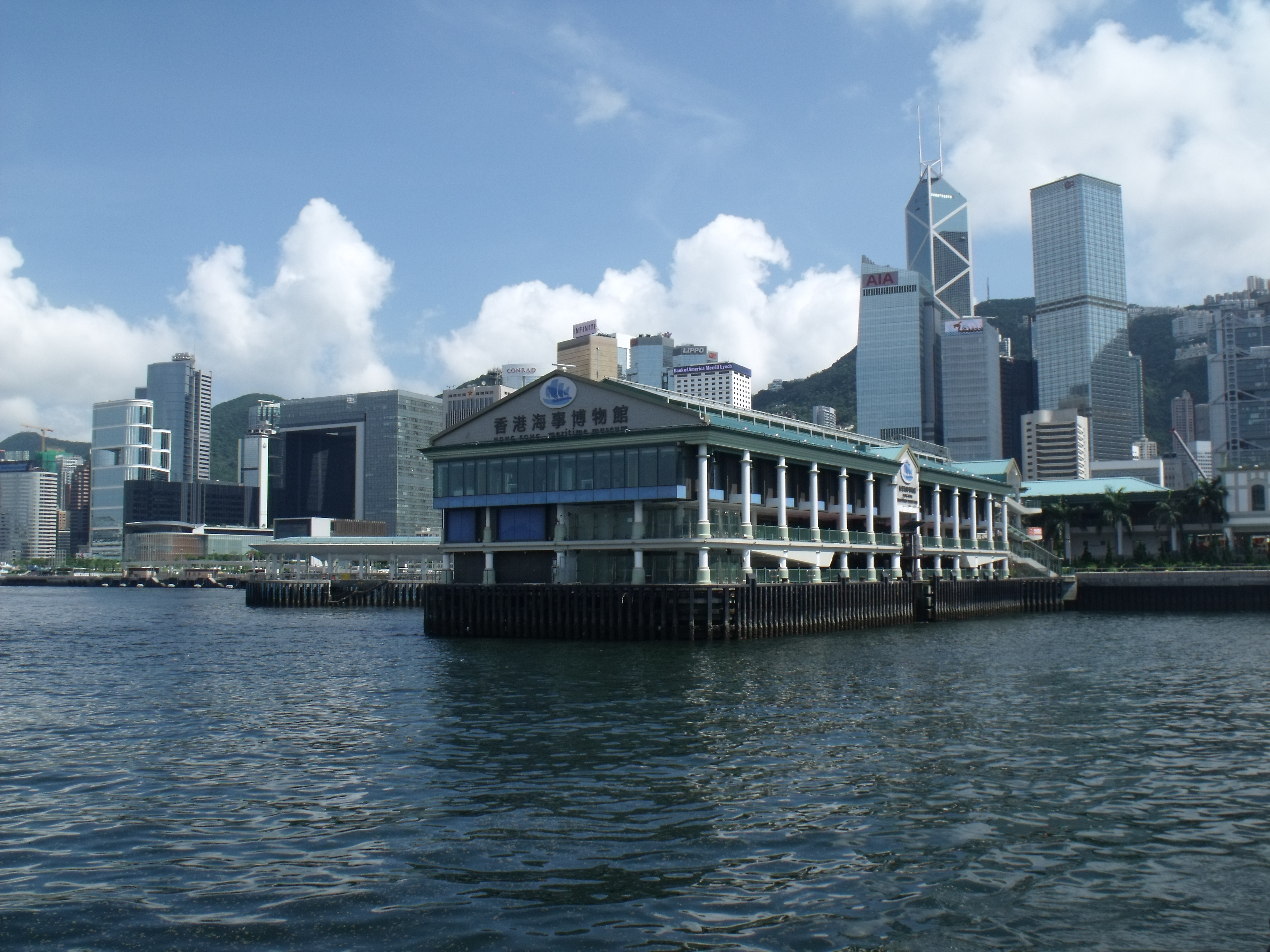 Hong Kong Maritime Museum at Central Pier 8, taken from a Star Ferry leaving Pier 7.